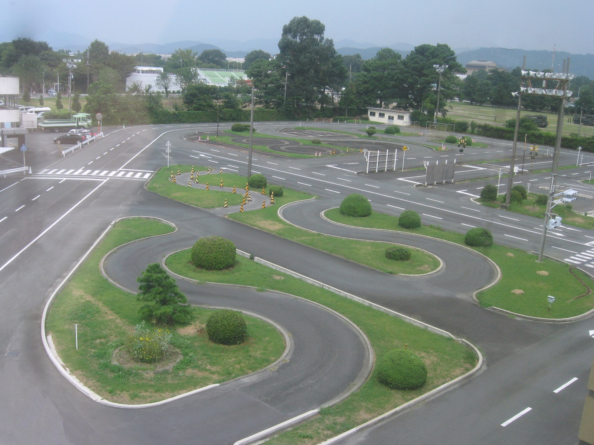 "S-curve" (for Driver's Education) at Higashi-mikawa Driver's License Center in Toyokawa, Japan